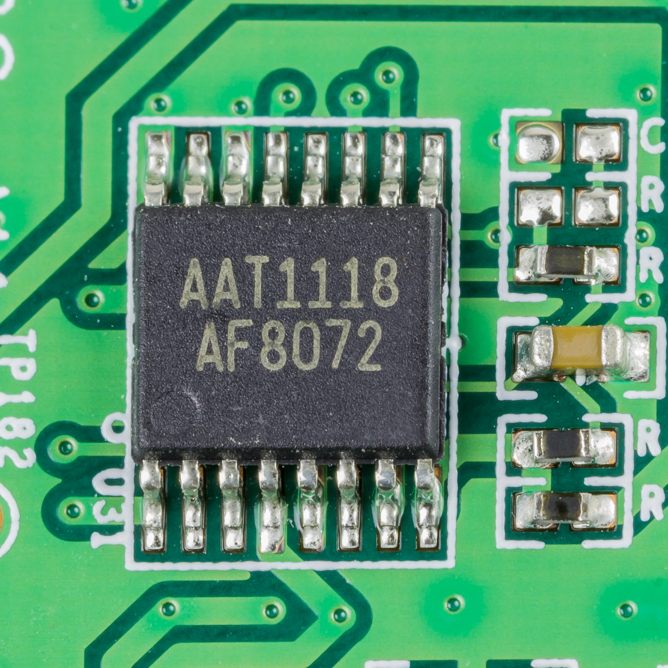 TomTom One (4N00.0121) - Advanced Analog Technology AAT1118 - Adjustable triple-channel TFT LCD DC-DC converter